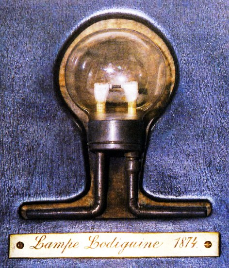 electric lamp (1874 AD) of Alexander Lodygin in Polytechnical Museum, Moscow